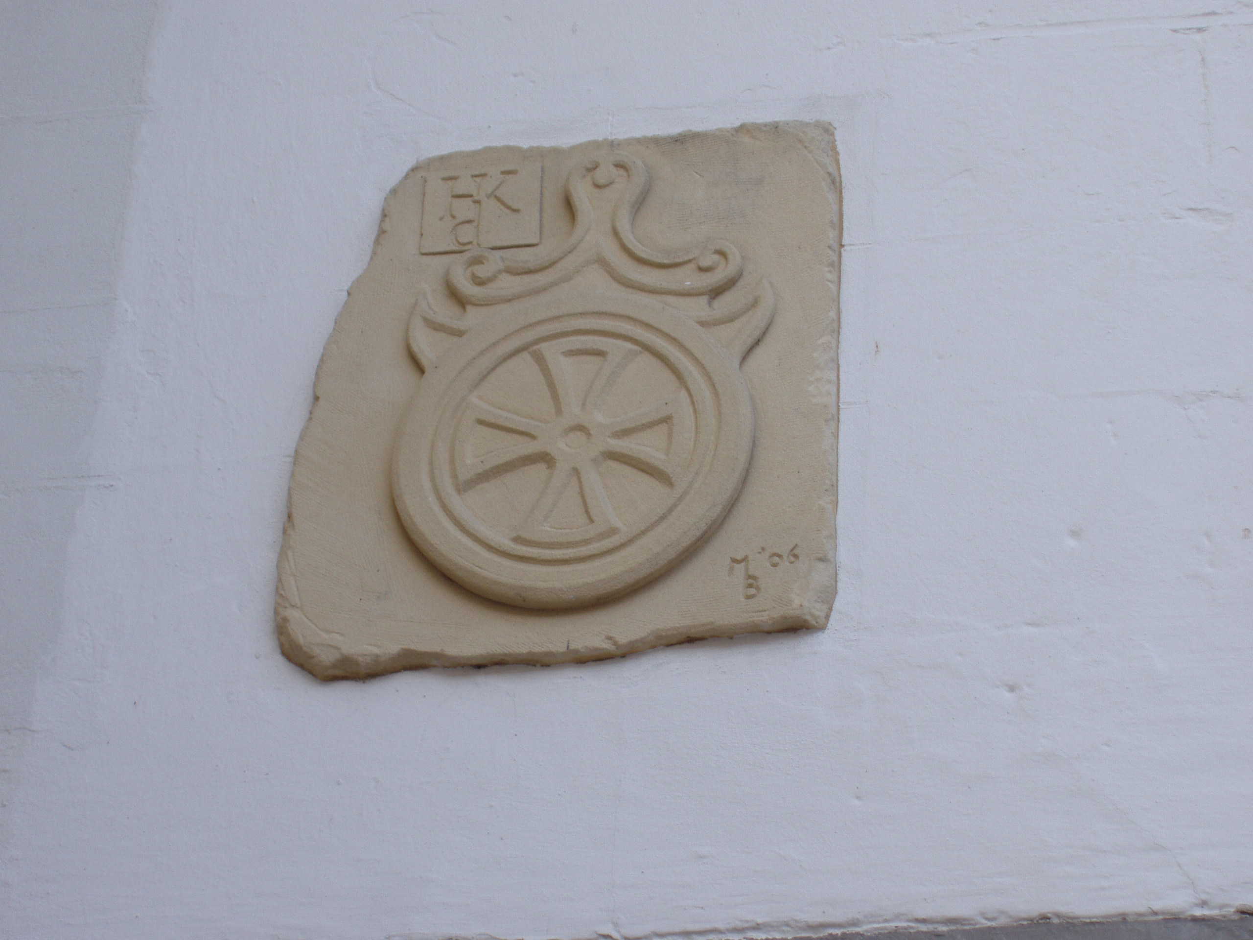 Oude- or Banmolen, Valkenburg, Watermill, Limburg, Netherlands